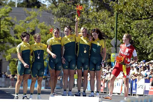 2006 Commonwealth Games, Melbourne, Australia, March 16-26, 2006 Women's road race - March 26